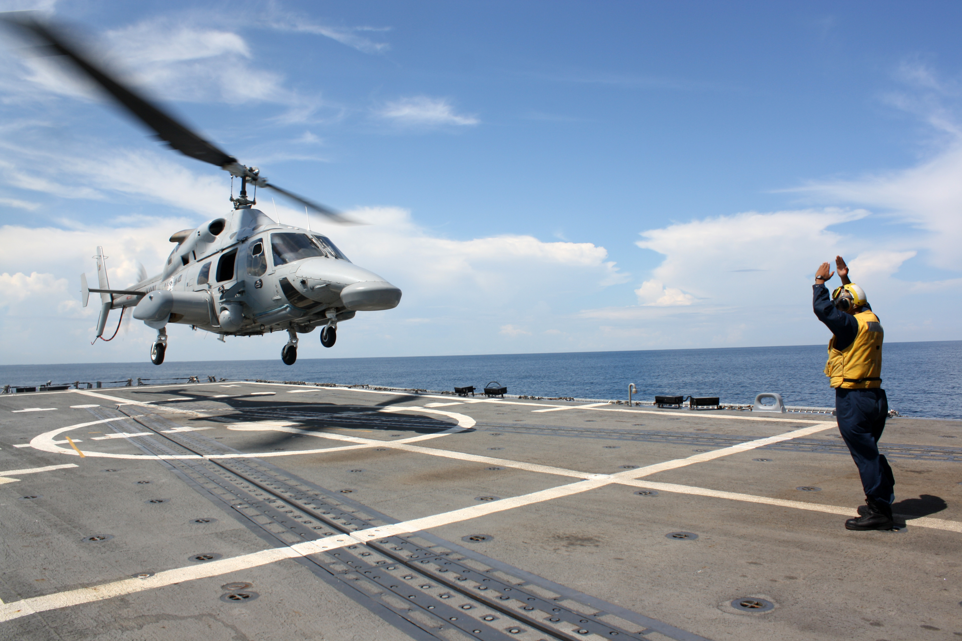 PACIFIC OCEAN (Aug. 17, 2011) Boatswain's Mate 3rd Class James Holmes, a landing safety enlisted, directs an Ecuadorian navy Bell 230 helicopter to take off from guided-missile frigate USS Thach (FFG 43) during cross-deck flight operations as part of PANAMAX 2011. Thach is a part of the PANAMAX Pacific Task Force with navy ships from Canada, Chile, Ecuador and Peru. PANAMAX focuses on the defense of the Panama Canal, with participants from 17 countries, and involving more than 4,500 personnel throughout the U.S. Southern Command. (U.S. Navy photo by Mass Communication Specialist 1st Class Steve Smith/Released)